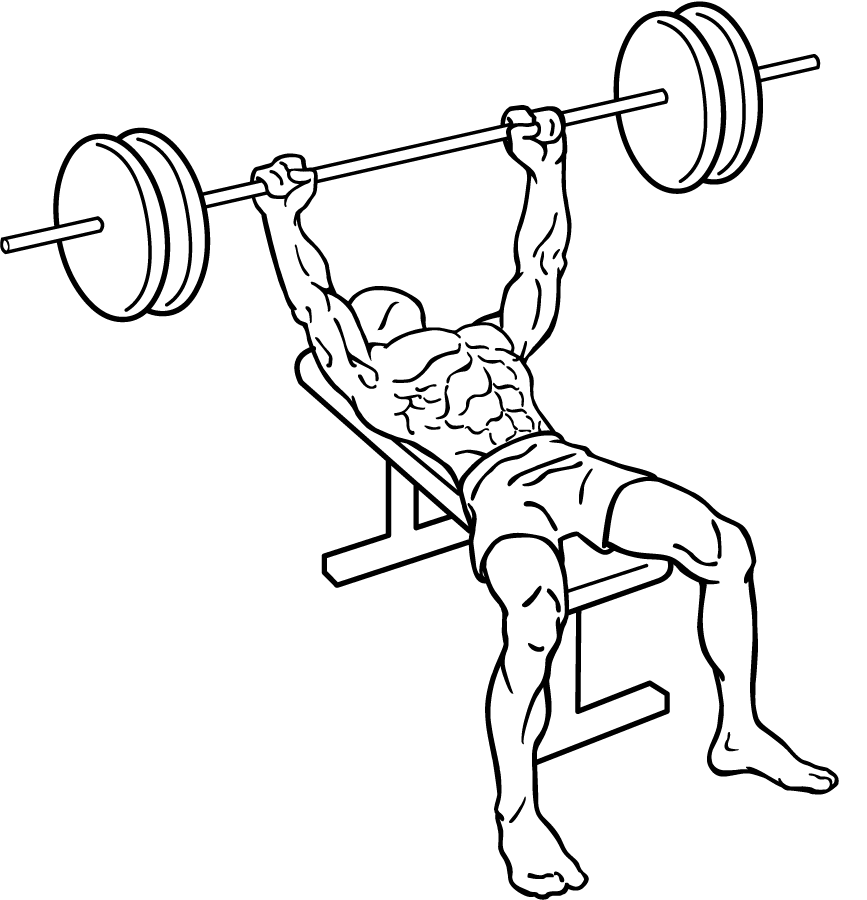 an exercise of chests